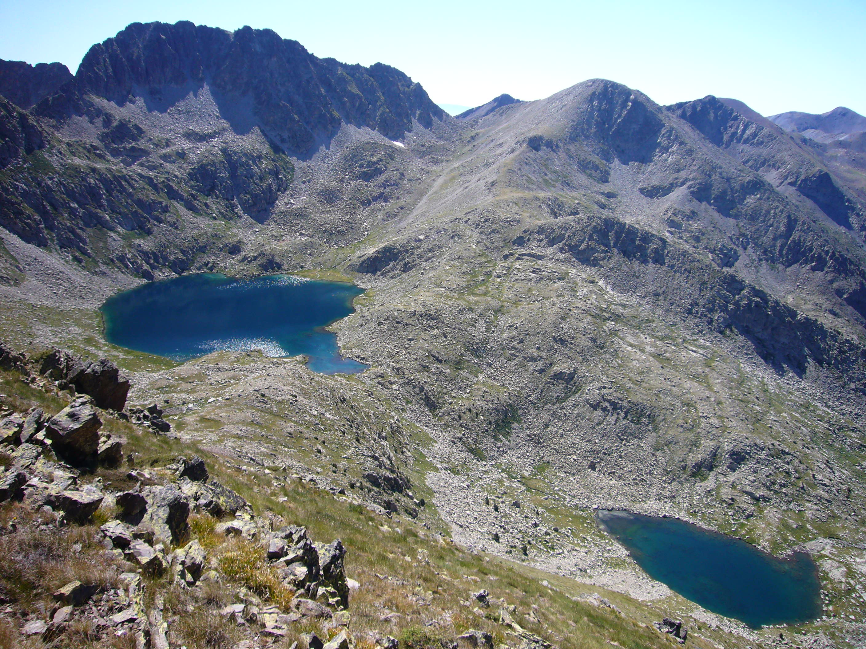 Estanys, Pic i Collades del Pessó; la Vall de Boí, Alta Ribagorça, Catalonia